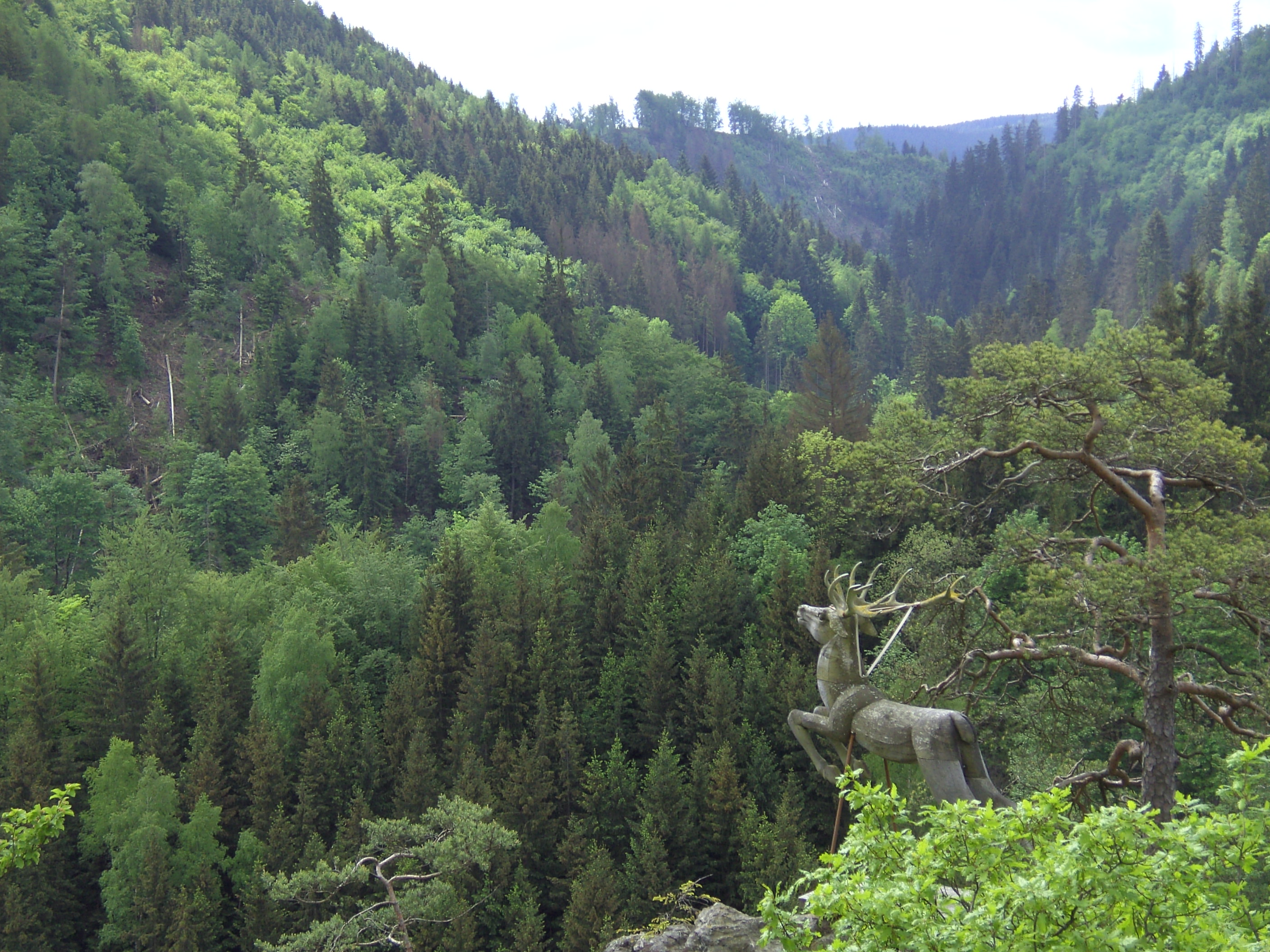 View over the Höllental in Frankenwald from lookout point Hirschsprung